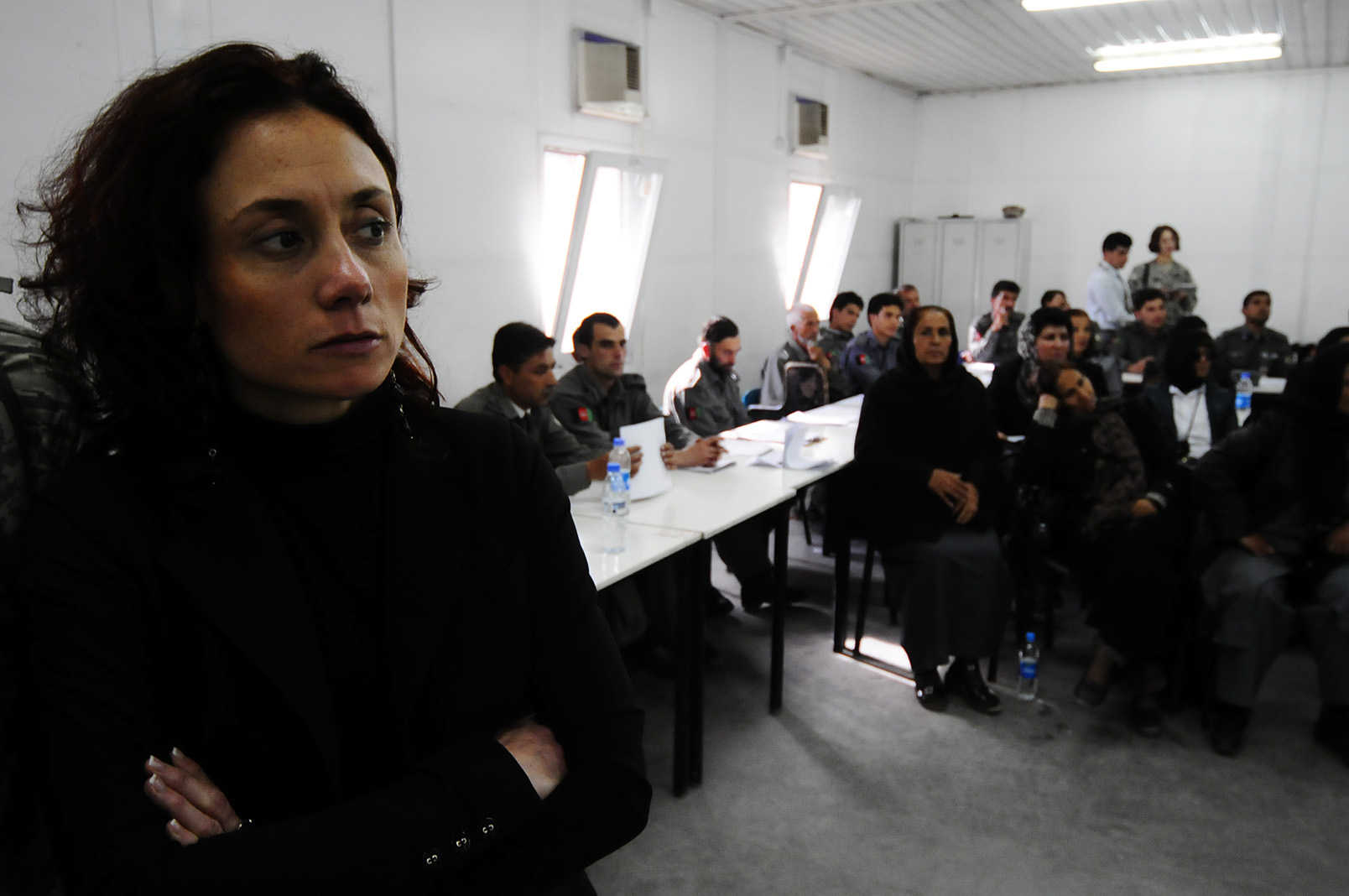 100404-N-9594C-023 KABUL, Afghanistan (April 4, 2010) Anna Baldry, left, senior researcher at The International Victimology Institute Tilburg (INTERVICT), watches as participants conduct role-play scenarios during domestic and gender-based violence training at the Central Training Center. Afghan National Police (ANP) instructors and investigators are attending the training, which is also being held at NATO Training Mission – Afghanistan. The training includes discussions on women’s roles and stereotypes, psychological consequences of violence, secondary victimization, what victims expect from police and cross talk with subject matter experts regarding best practices in training ANP on domestic violence. (US Navy photo by Chief Mass Communication Specialist F. Julian Carroll)